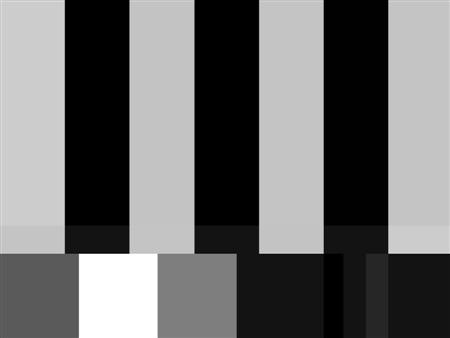 SMPTE color bars as seen in calibration mode (blue channel only). The large bars are well matched to the smaller segments underneath, showing that the chrominance and luminance components are adjusted correctly.